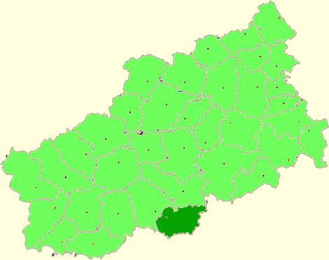 Tver Oblast map by Al Silonov